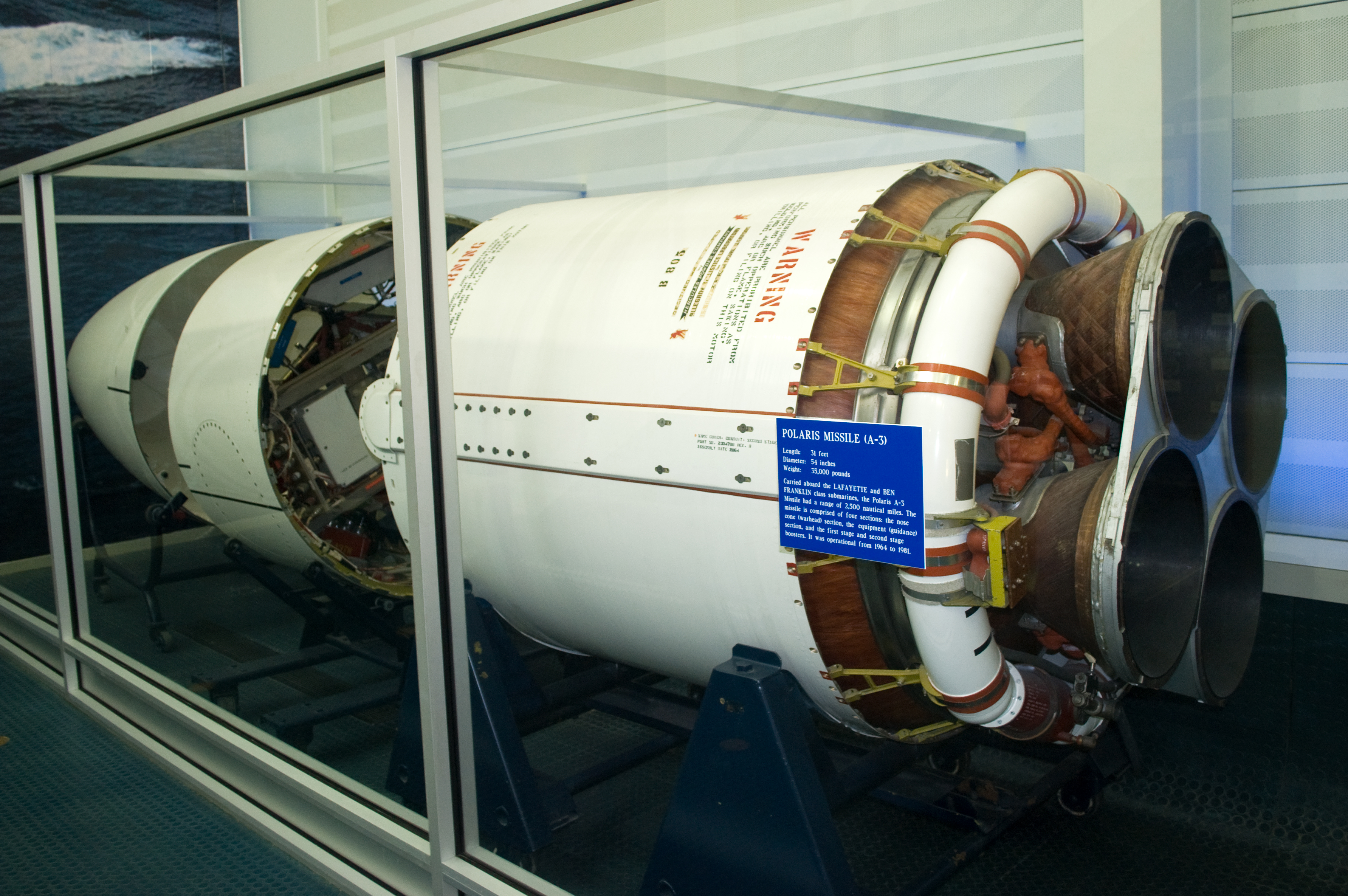 Upper stages of the Polaris A3 ballistic missile , Submarine Force Museum.